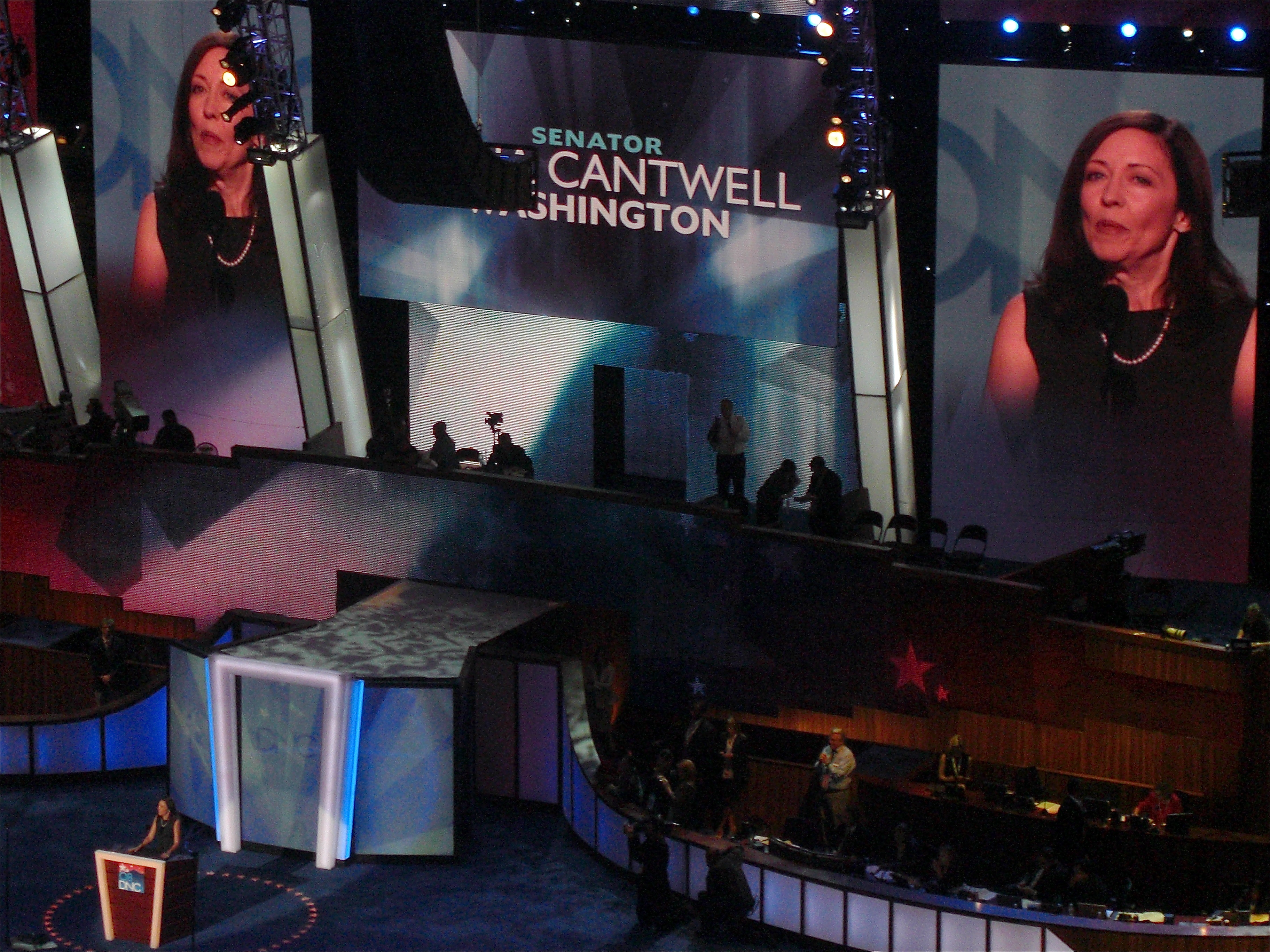 Maria Cantwell speaks during the second day of the 2008 Democratic National Convention in Denver, Colorado, United States.